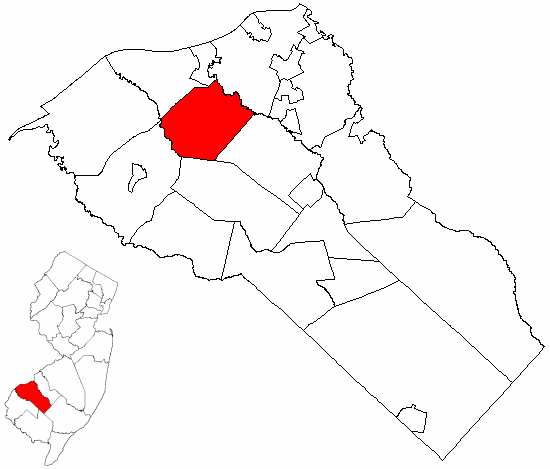 Map of Gloucester County highlighting East Greenwich Township